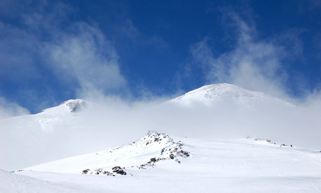 Elbrus mountain (both heads). Photo taken from 4200 meters.